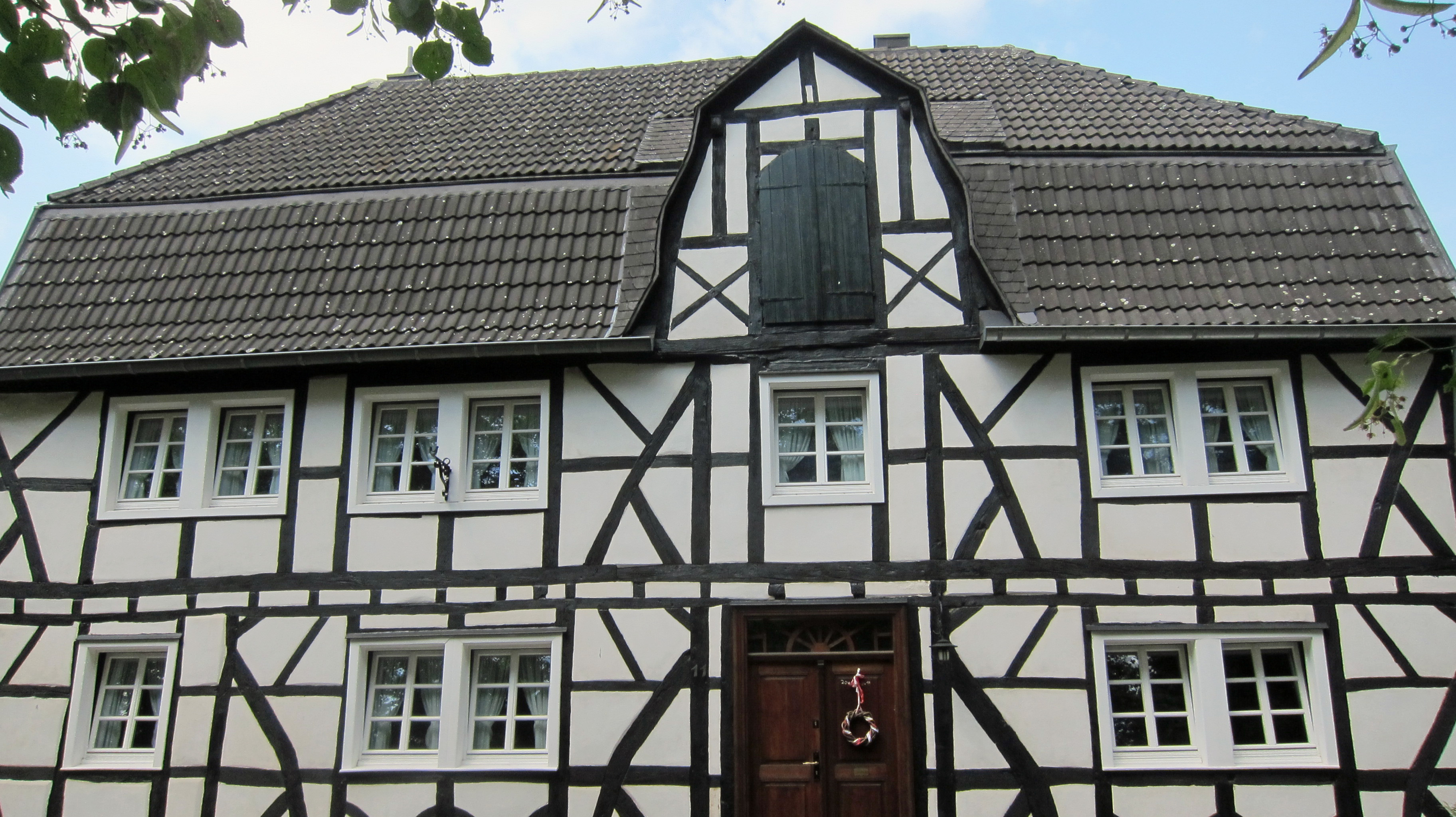 an old house on Marktplatz in Sieglar, Germany